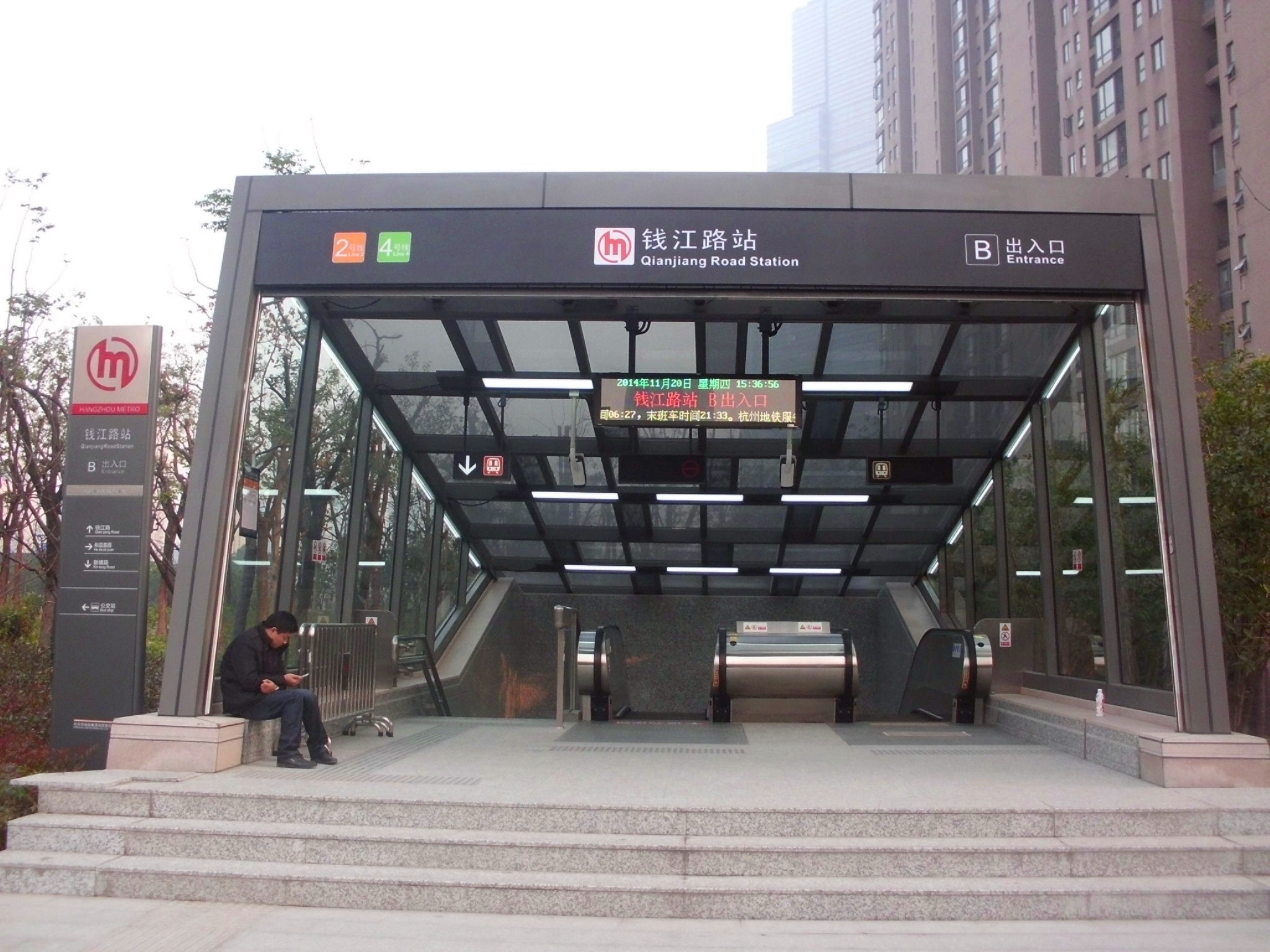 Qianjiang Road Station